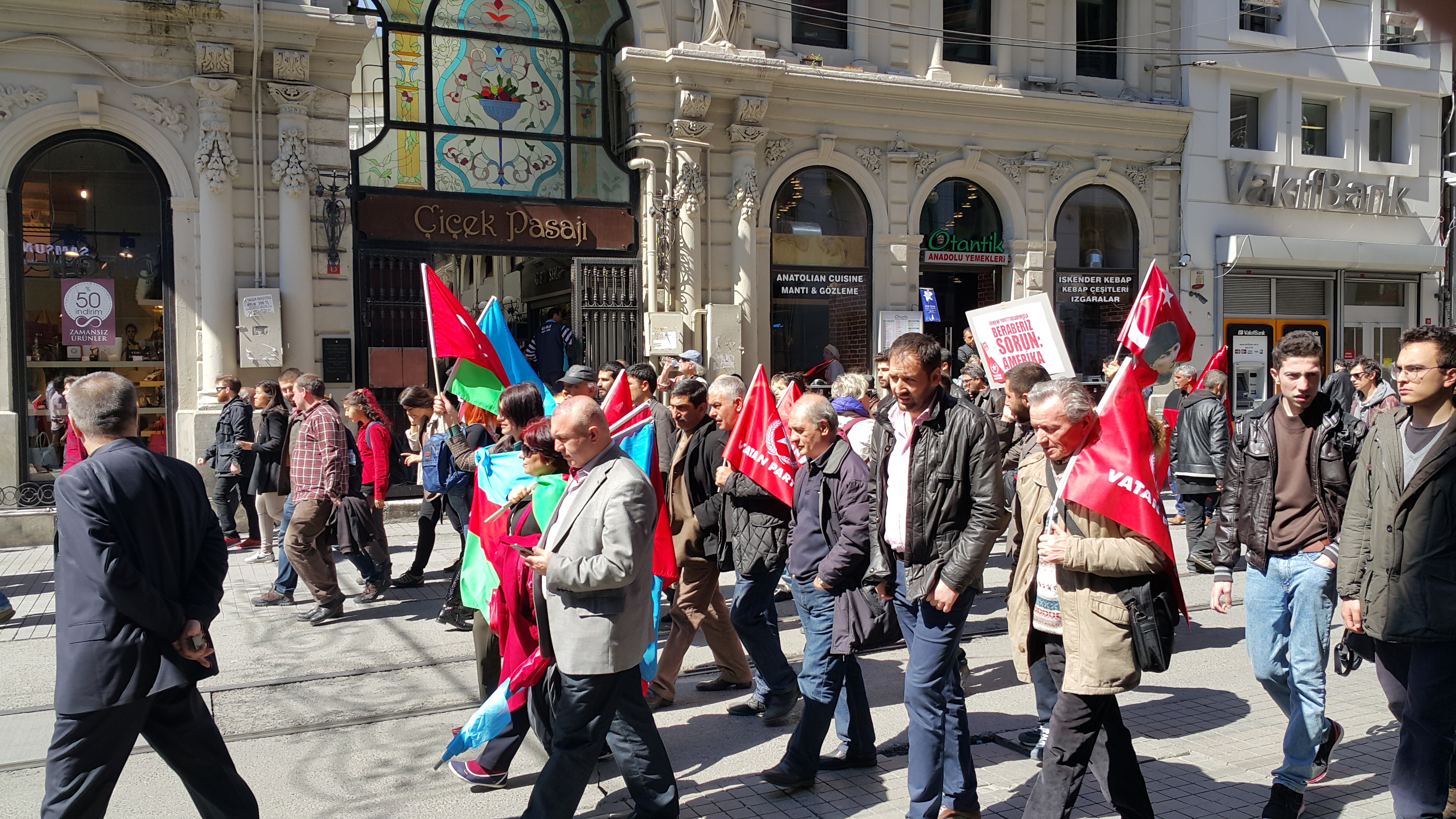 A protest organized by the Turks and Azerbaijanis against Armenian claims in Istiklal Avenue, Istanbul,Turkey.